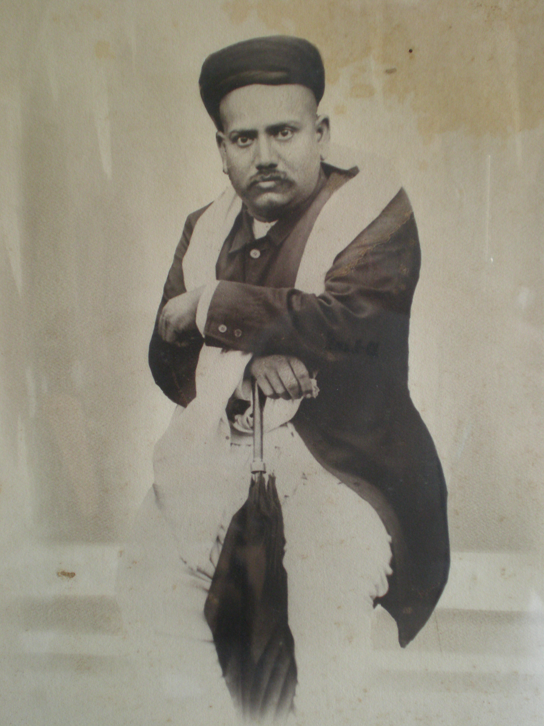 At age of 34